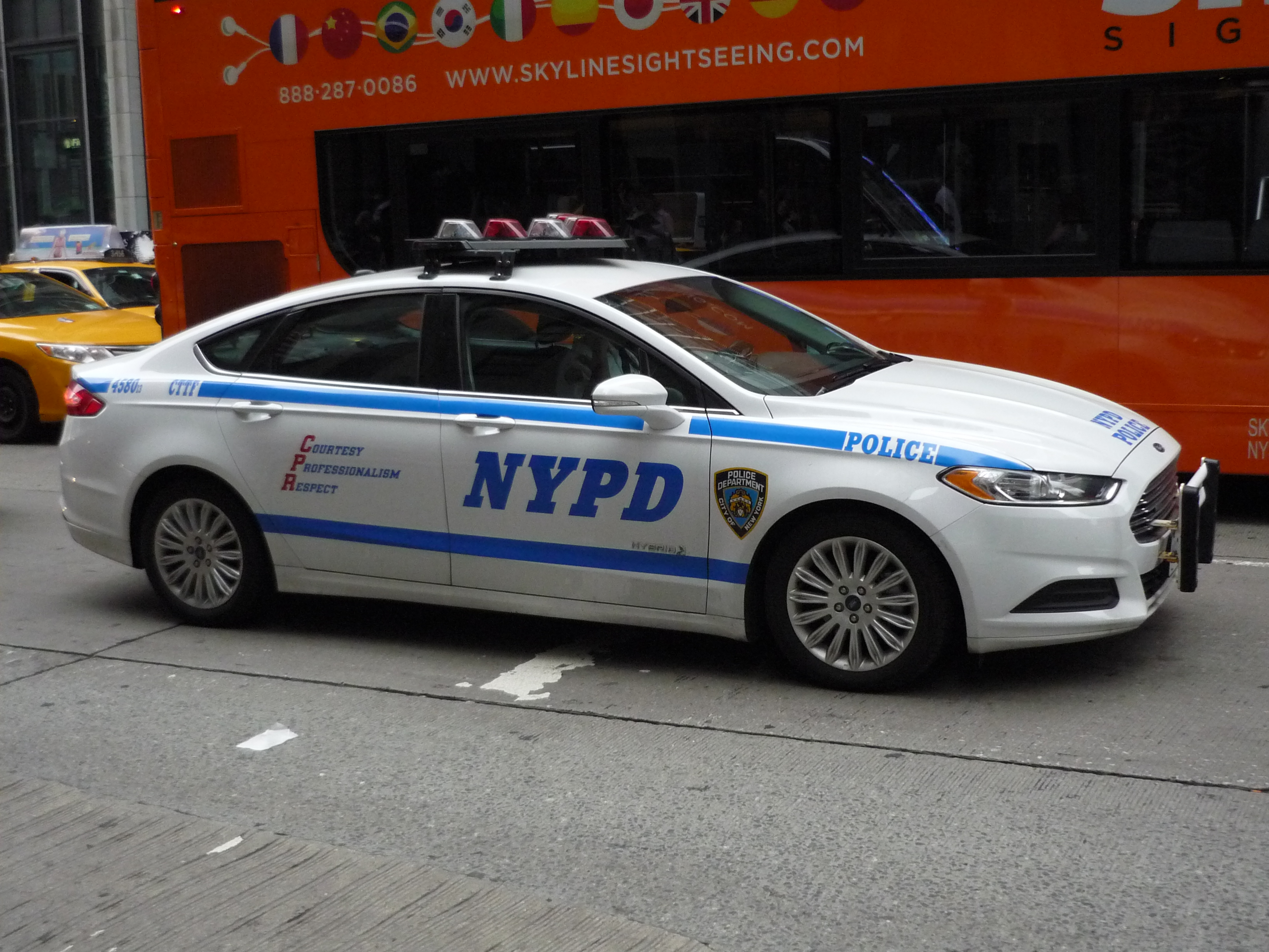 The Fusion hybrid seems to really be ruling the roost as far as the NYPD's current acquisitions go. I suppose that makes some sense given the nature of driving in New York. This one is stuck at a light on 6th Avenue.